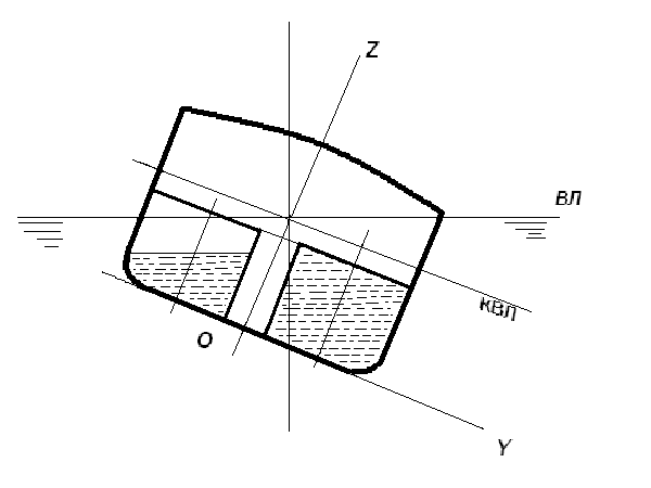 Ship flooding. Typical Case 5